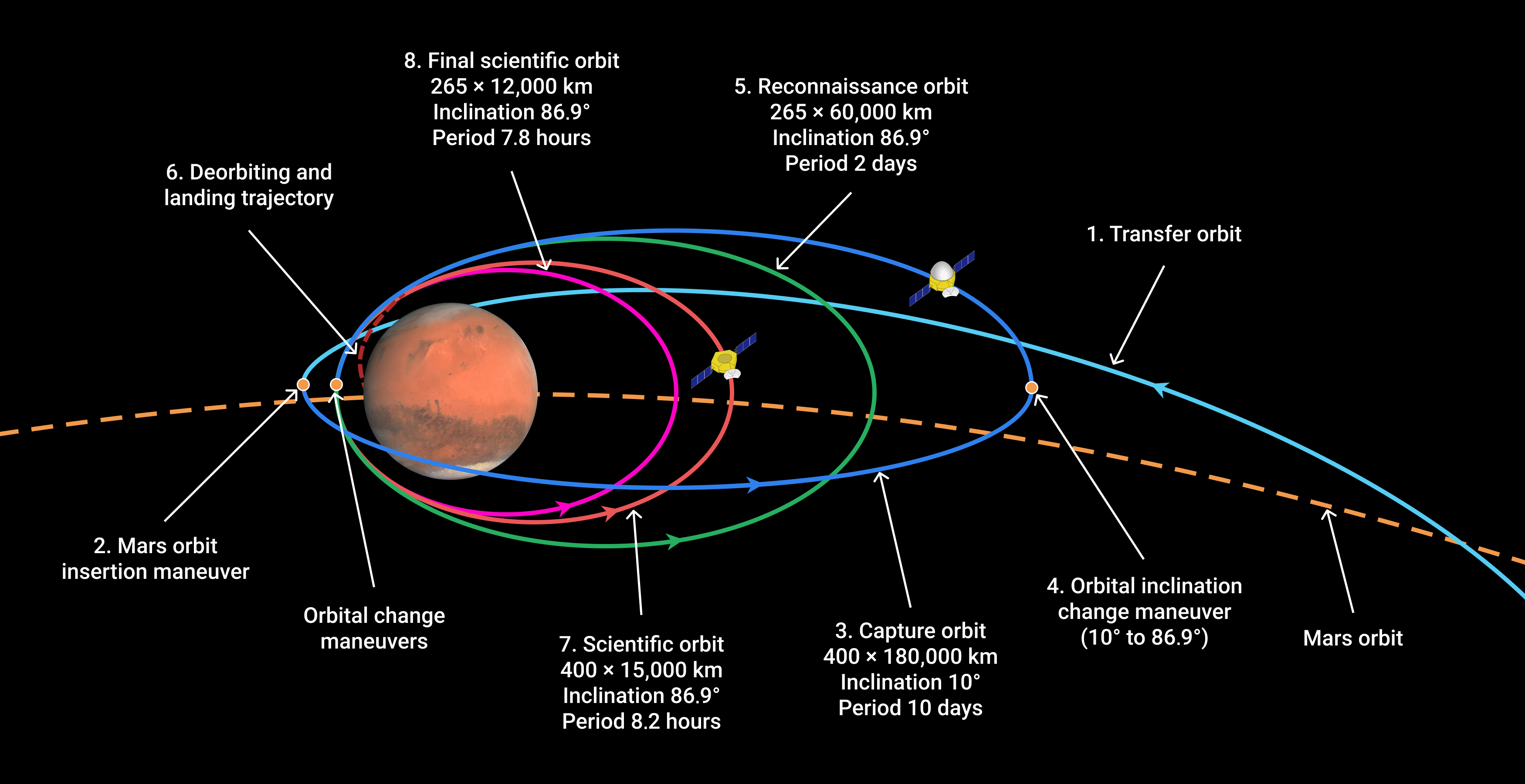 A schema of the different orbits that the Chinese probe Tianwen-1 will use around Mars, with information on the orbital parameters of each of them.